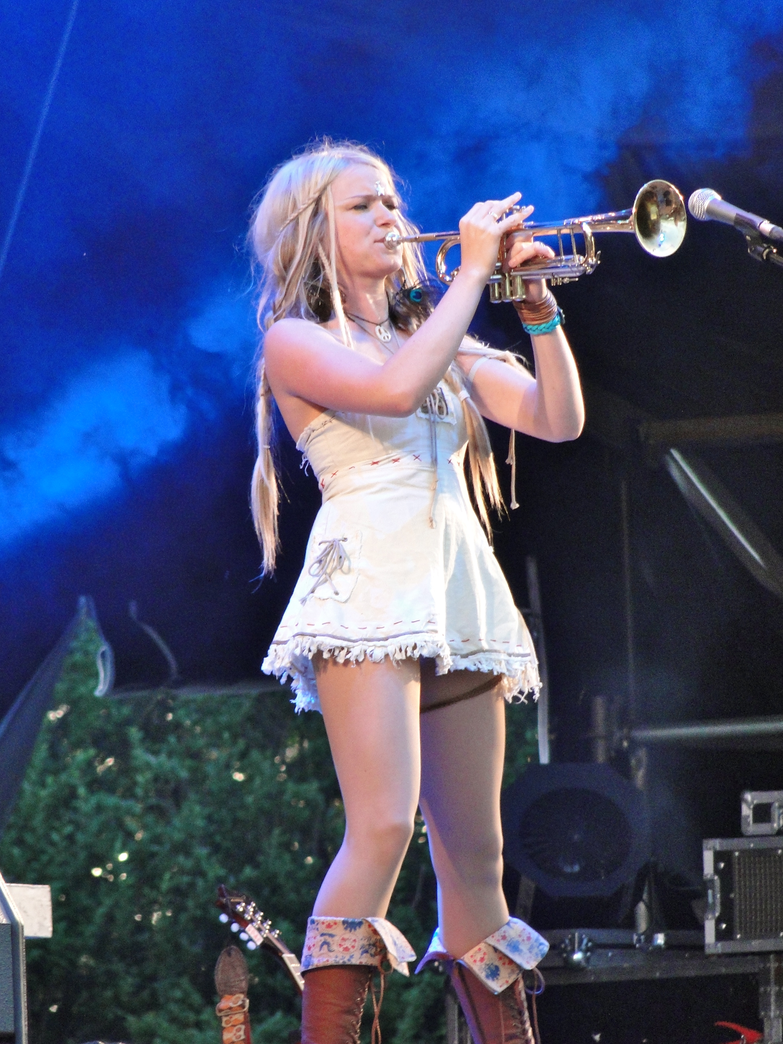 Solveig Heilo at "Hamburger Kultursommer", Germany, 2011